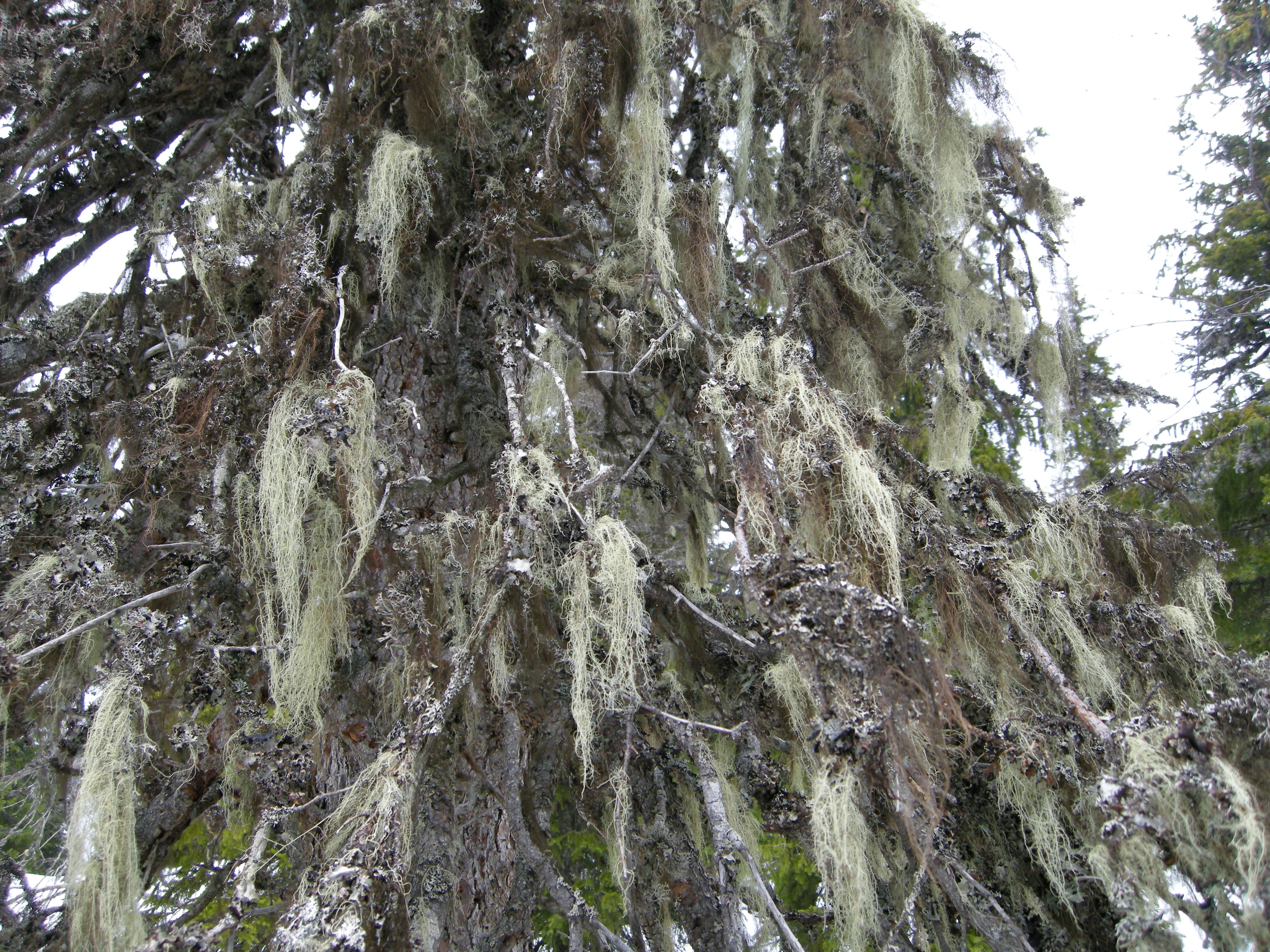 Unidentified species of Bryoria. Millifolium (talk) 21:54, 25 March 2010 (UTC) Alectoria sarmentosa (and some Bryoria and Usnea) - Blefjell, Norway